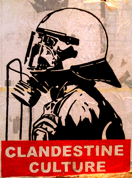 street artist CLANDESTINE CULTURE, wheat paste, in Miami